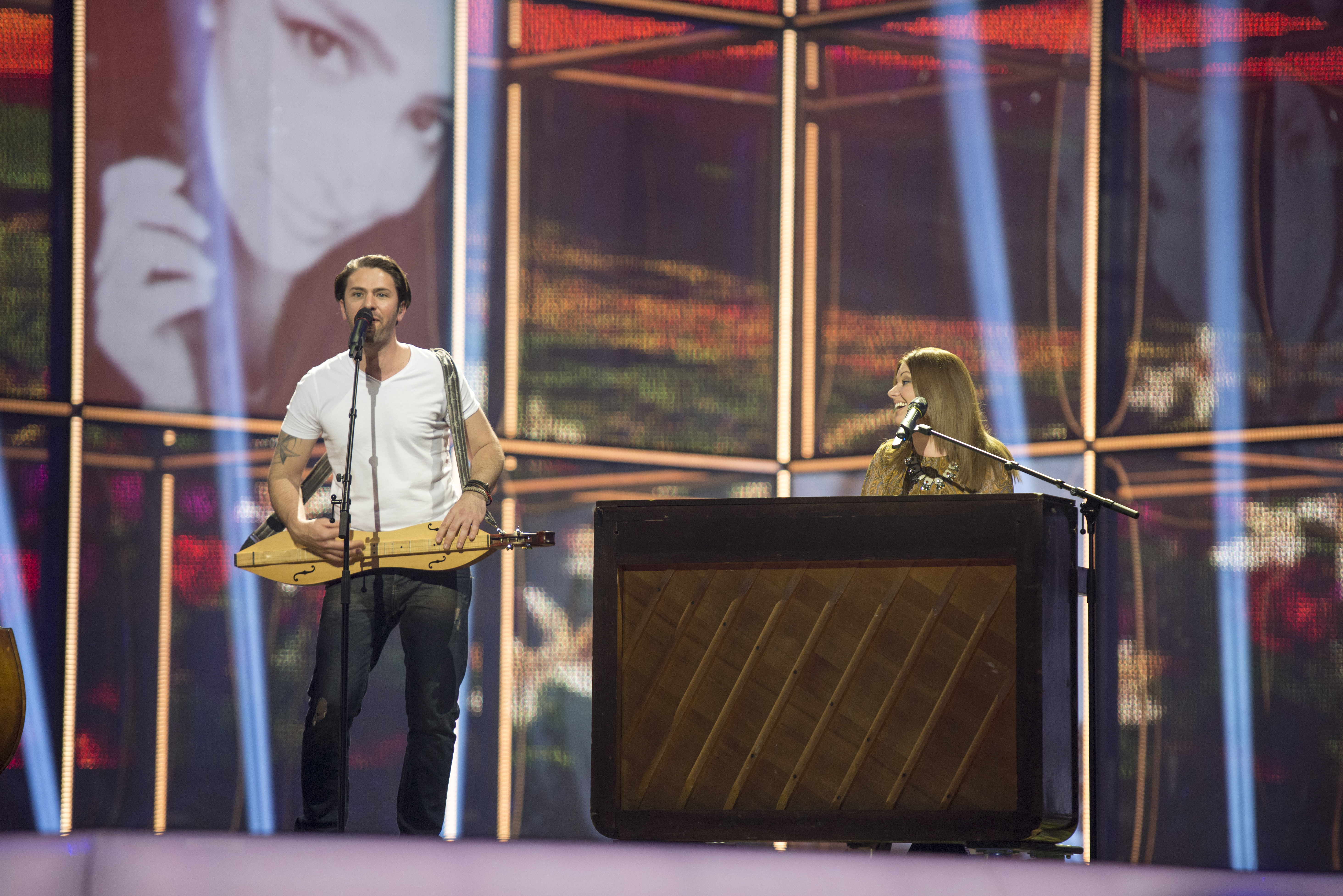 Firelight representing Malta with the song "Coming Home" during the first dress rehearsal of the second semi final of the Eurovision Song Contest 2014 Copenhagen. (Help translate this text)